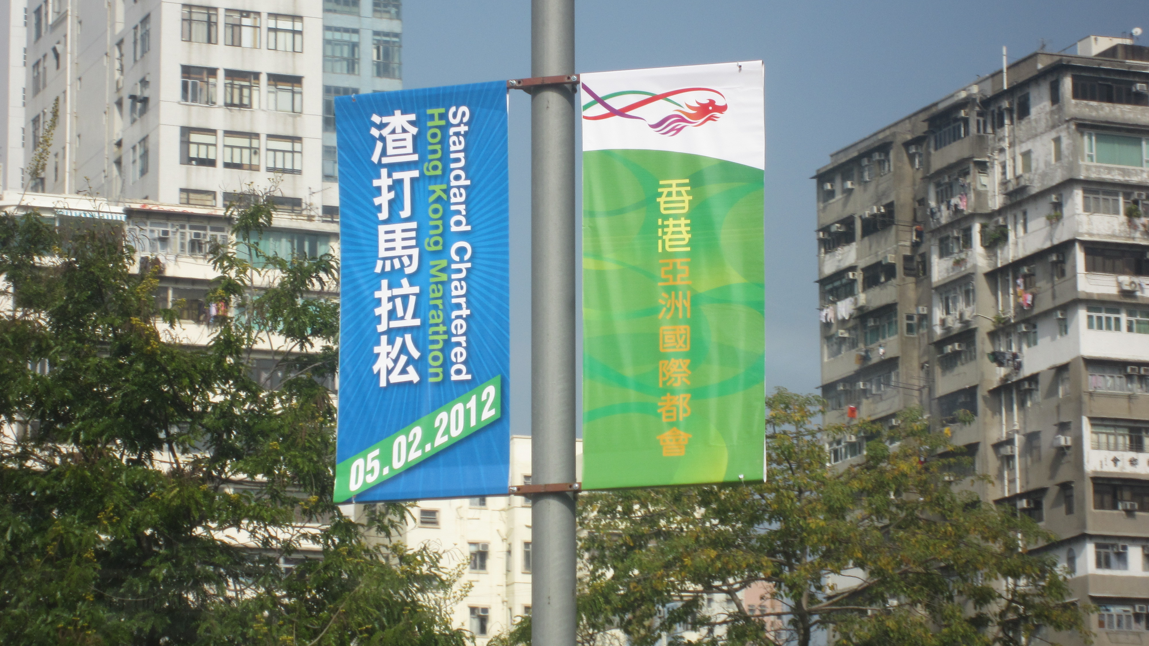 Ad Banner of Standard Chartered Hong Kong Marathon